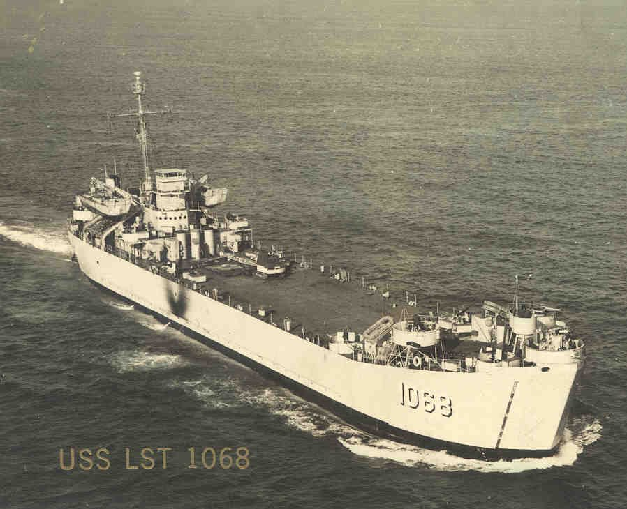 USS Orange County (LST-1068) off the coast of San Diego, returning from a tour of duty in Korea during the Korean War. Official US Navy photo taken from